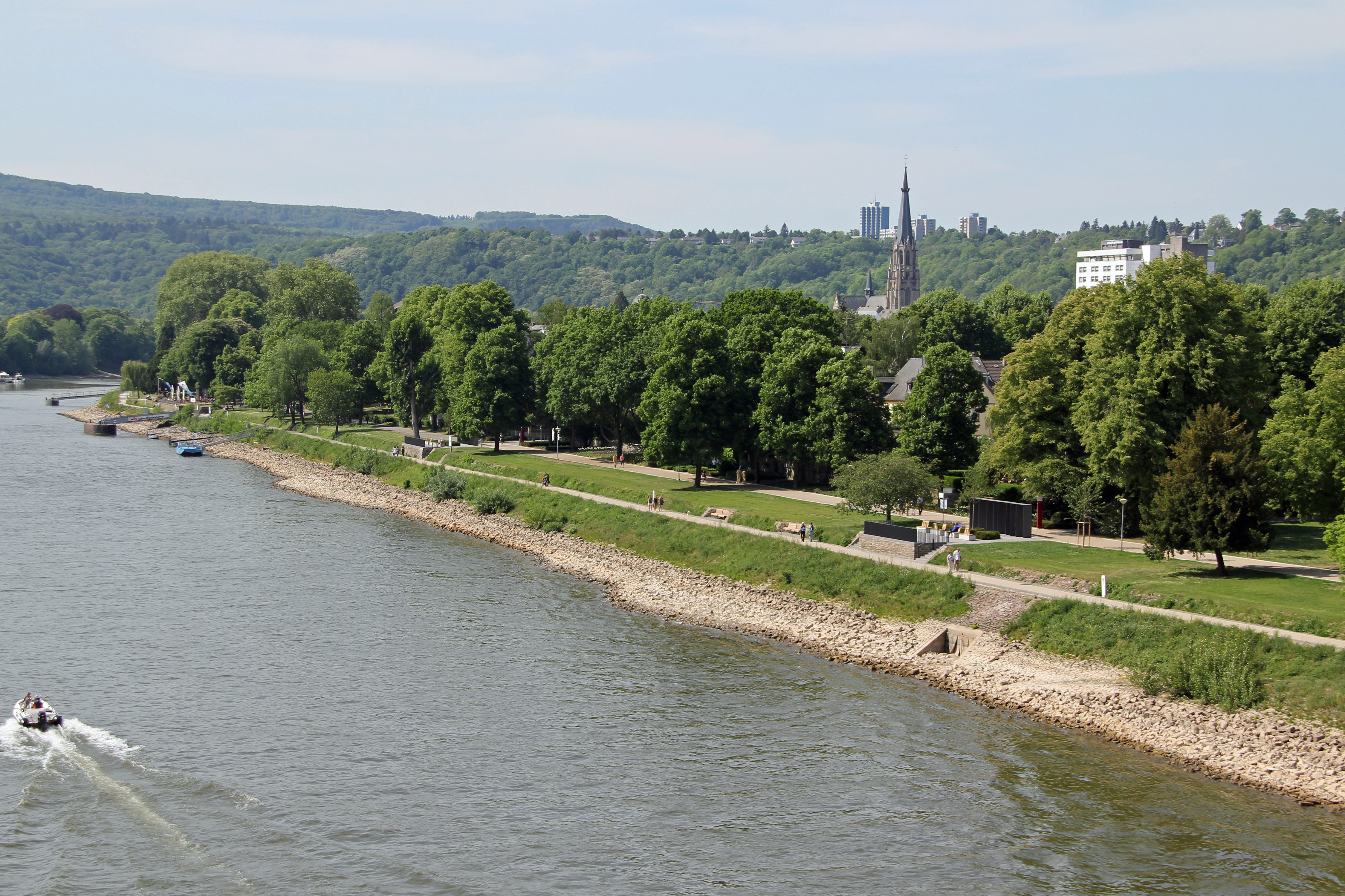 Rhine park in Koblenz